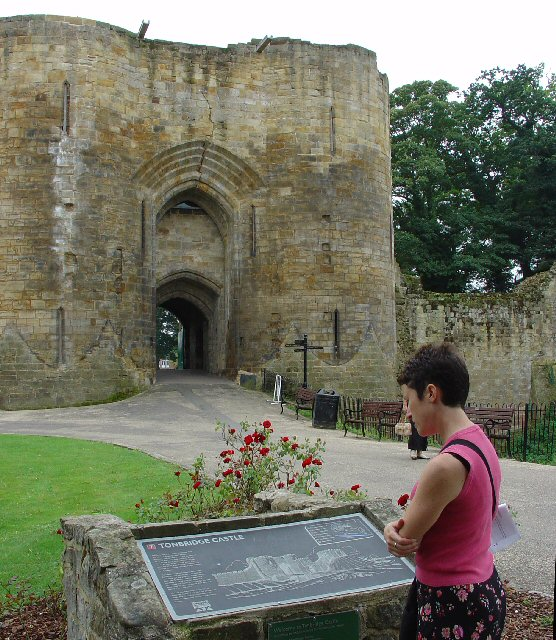 Tonbridge Castle Gatehouse - N Side, Tonbridge, Kent. View from outside the front gate of the castle. A millennium project (finished in 2003) renovated the castle and provided 7 information panels at strategic points round the castle like the one shown.